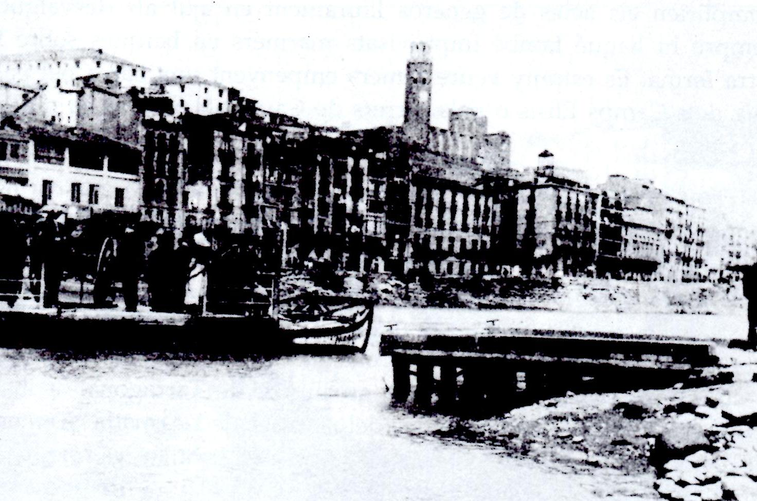 LLeida